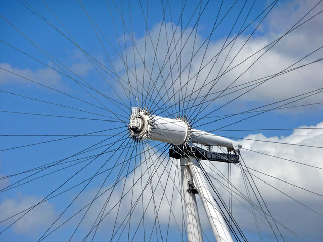 Hub of the Eye The centre of the London Eye with spokes against blue sky.